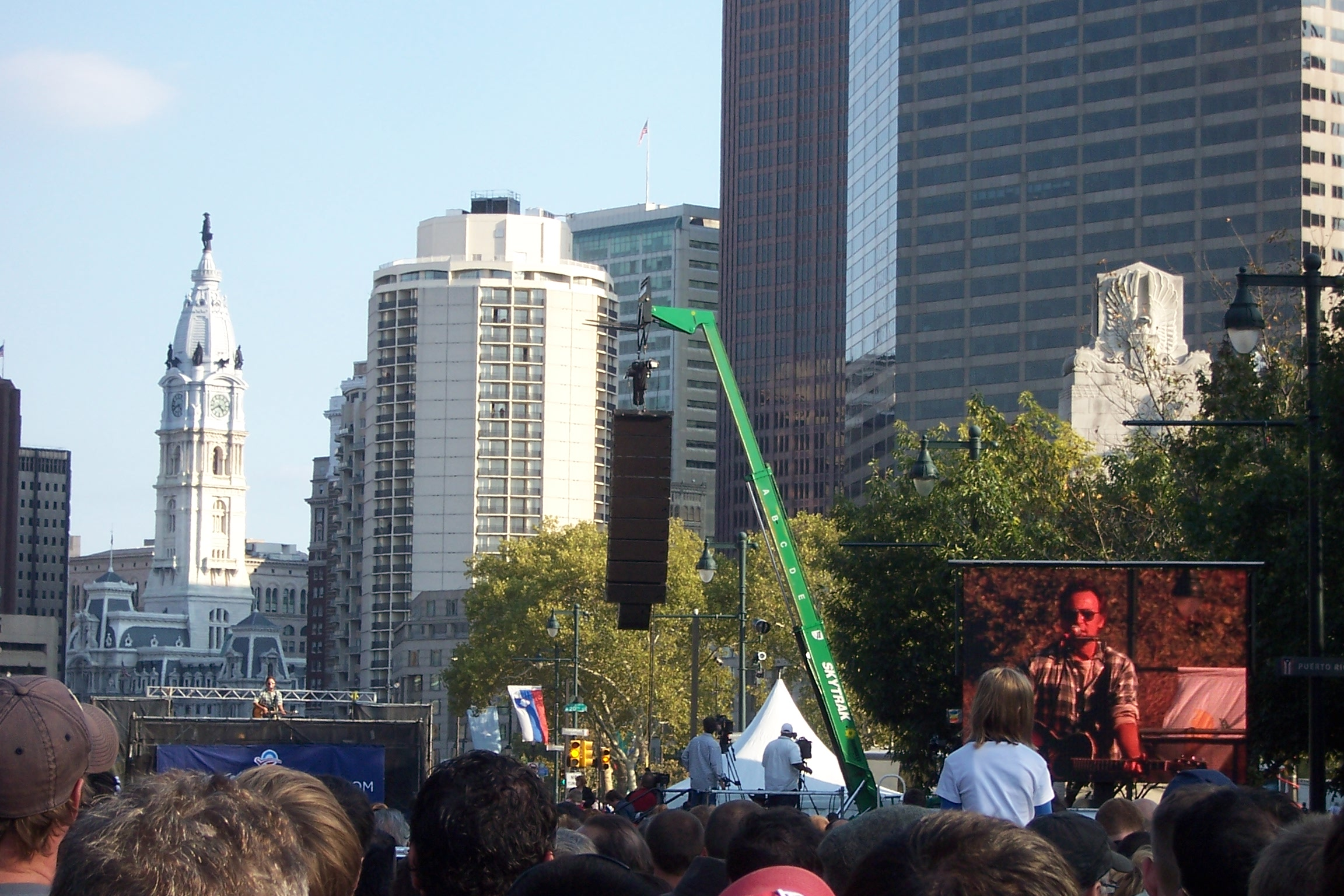 Bruce Springsteen performing "The Ghost of Tom Joad" at the Change Rocks voter registration rally for Barack Obama, in Philadelphia on the Benjamin Franklin Parkway